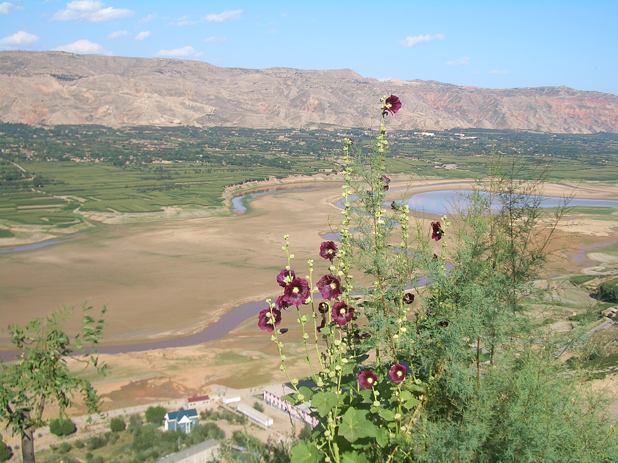 Looking down from the edge of a loess plateau to the lower Daxia River, just a bit upstream from its fall into the Liujiaxia Reservoir. The photographer stands in the northeastern part of Linxia County, probably in Xihe Township. The flatland and hills beyond the river are in Dongxiang Autonomous County.